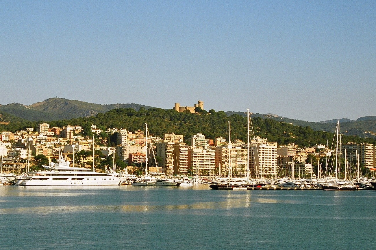 Bellver Castle - Whole